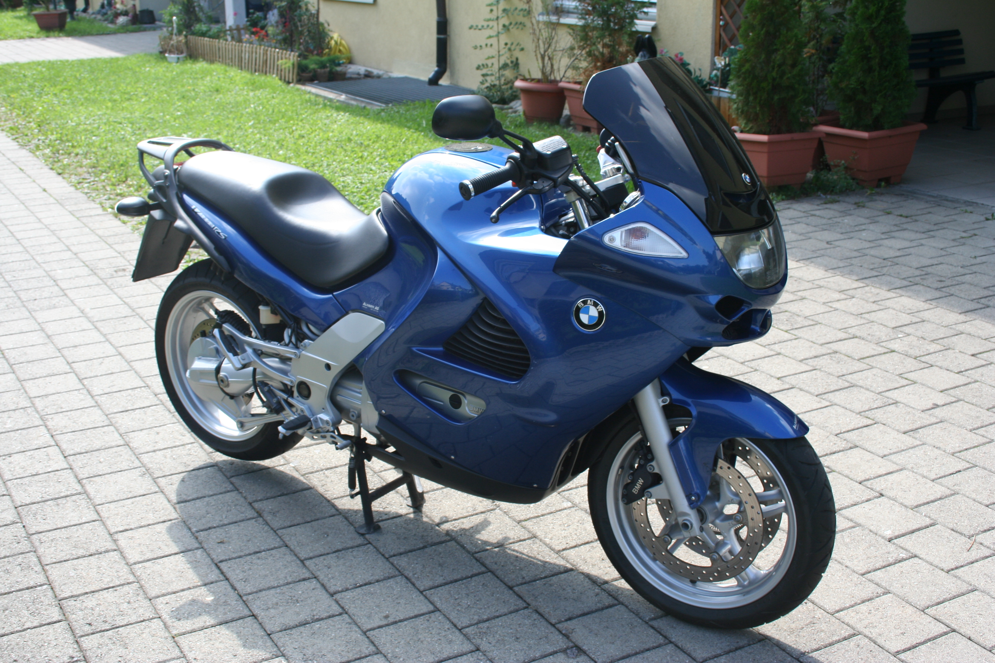 BMW K 1200 RS Facelift (2001 - 2004)